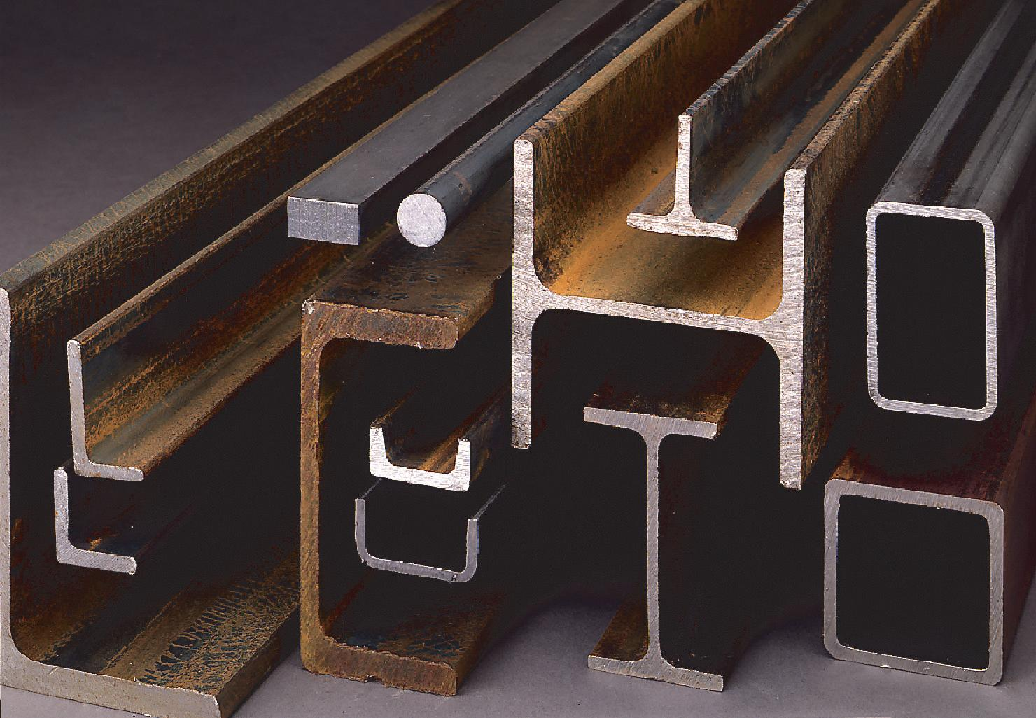 Different cross sections of structural steel.